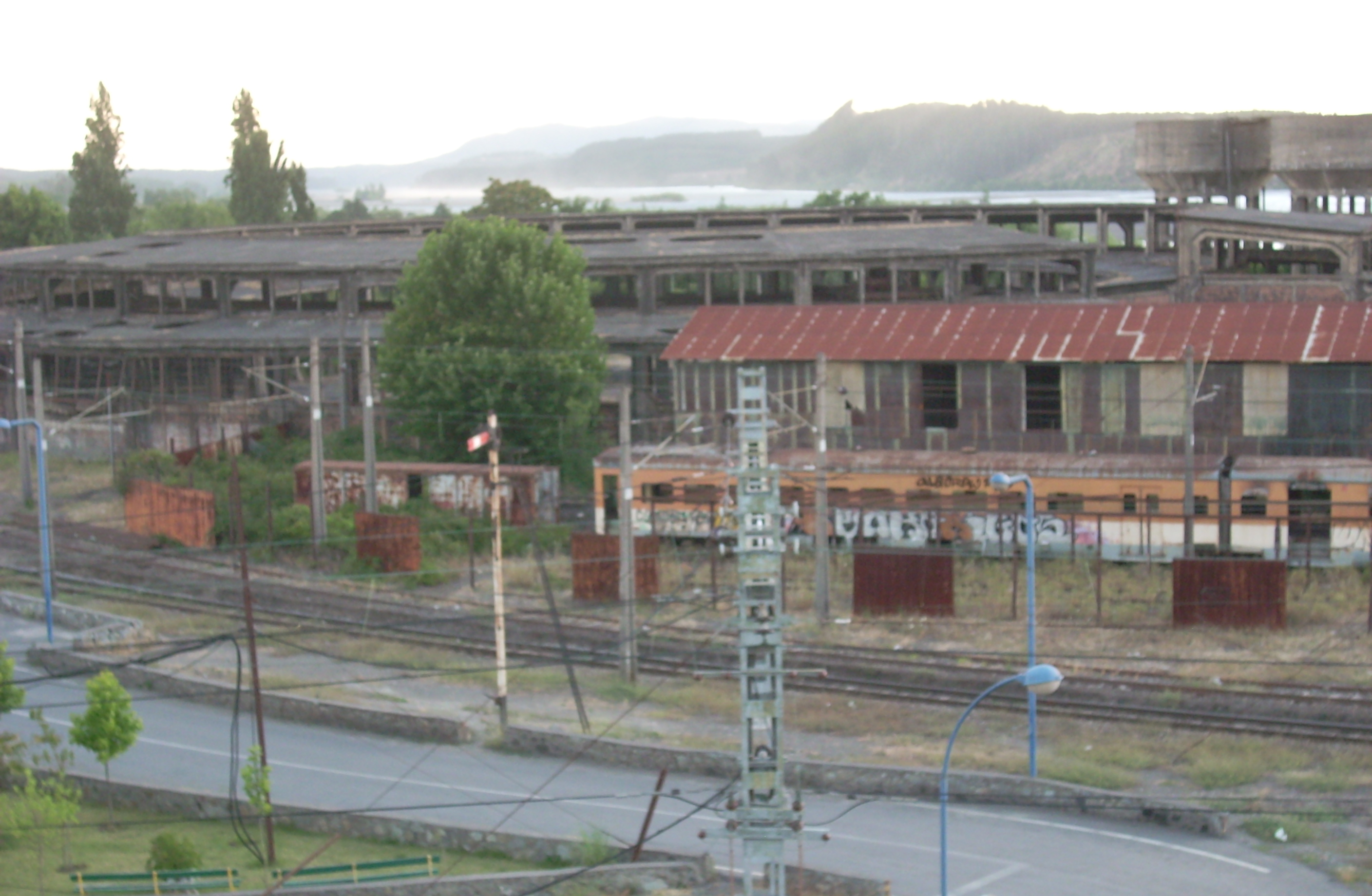 San Rosendo, Chile